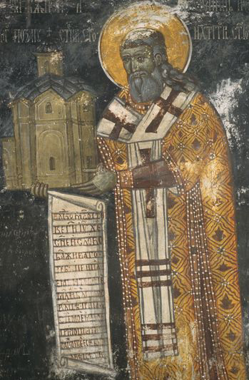 Fresco of Patriarch Makarije, Budisavci, late 17th century